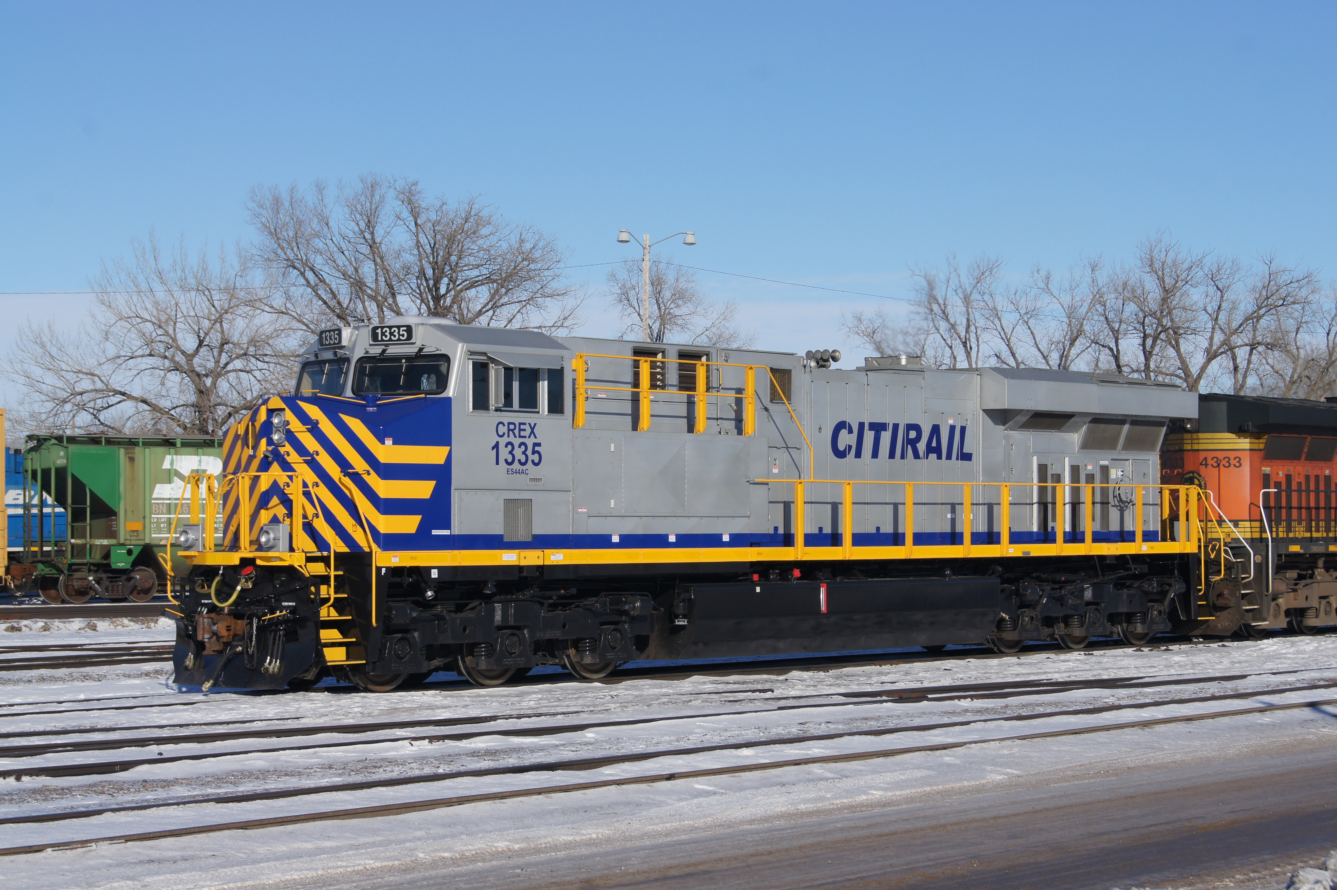 CREX 1335 (GE ES44AC) and BNSF 4333 (GE C44-9W).